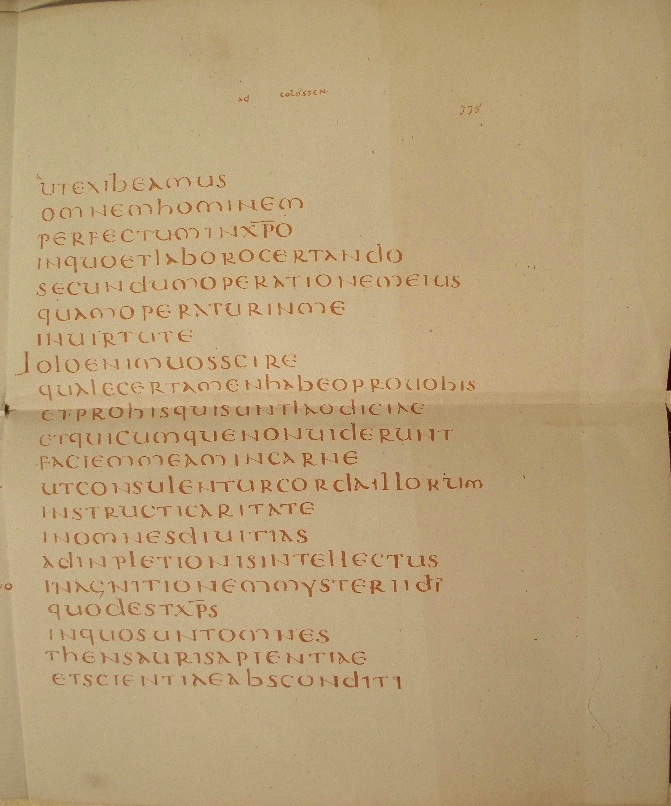 Single page of the Codex Claromontanus containing the latin text of Colosians 1:28-2:3